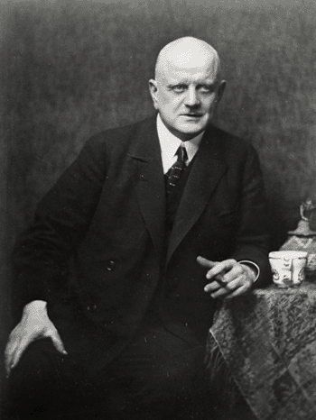 Finnish composer Jean Sibelius in 1923